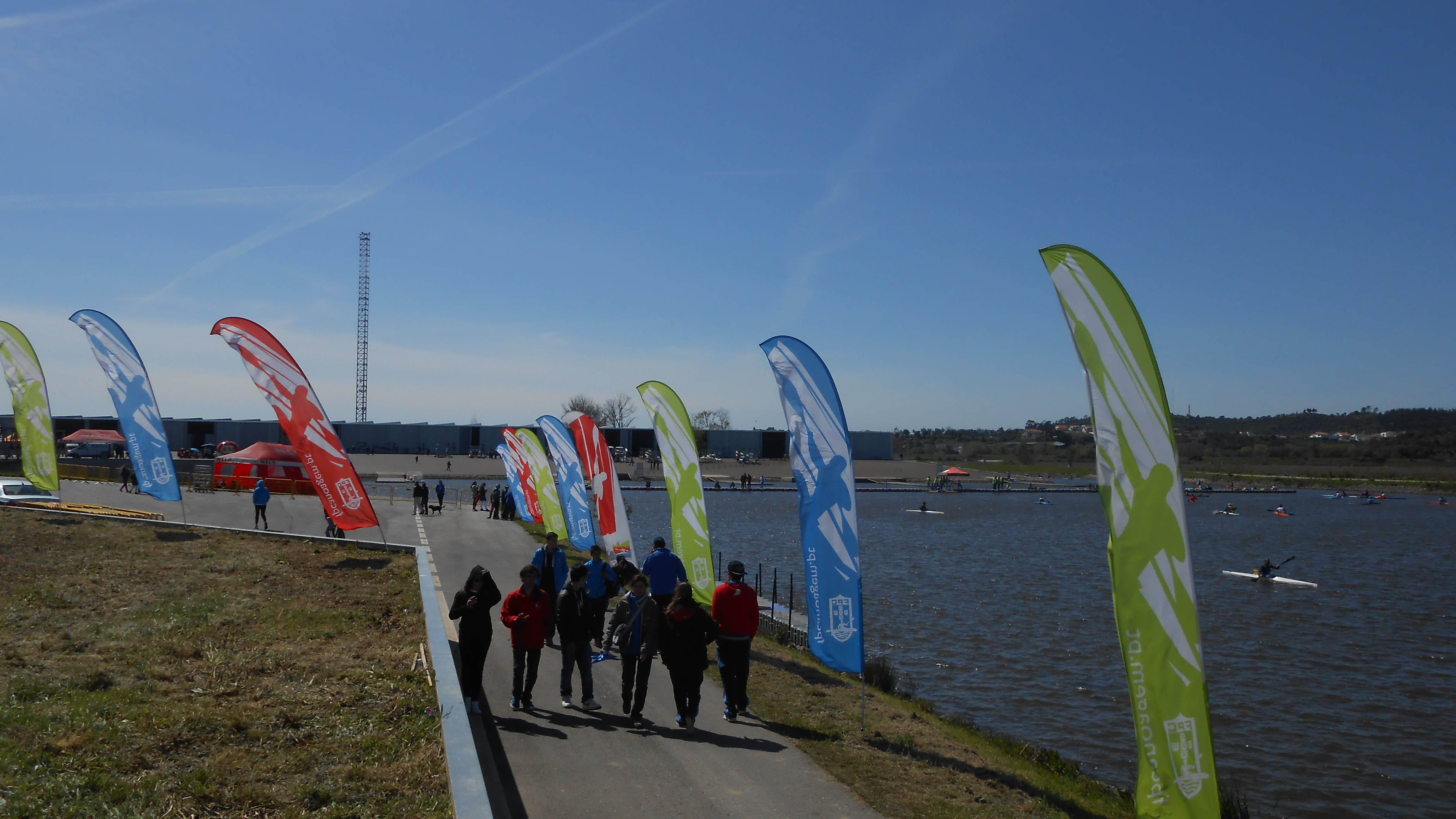 Inside the Centro Náutico, part of the Centro de Alto Rendimento (CAR) in Montemor-o-Velho in the Coimbra district